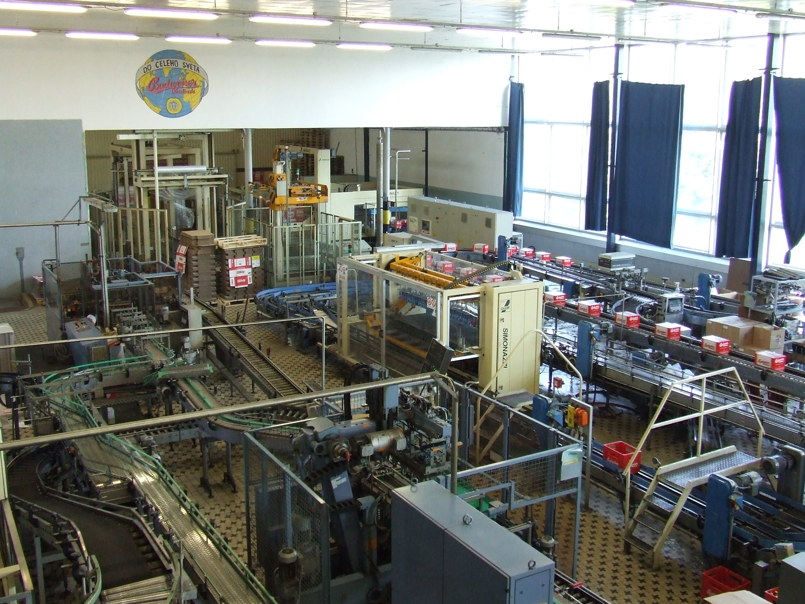 Tour of Budějovický Budvar (Budweiser Budvar) brewery in České Budějovice, Czech Republic.